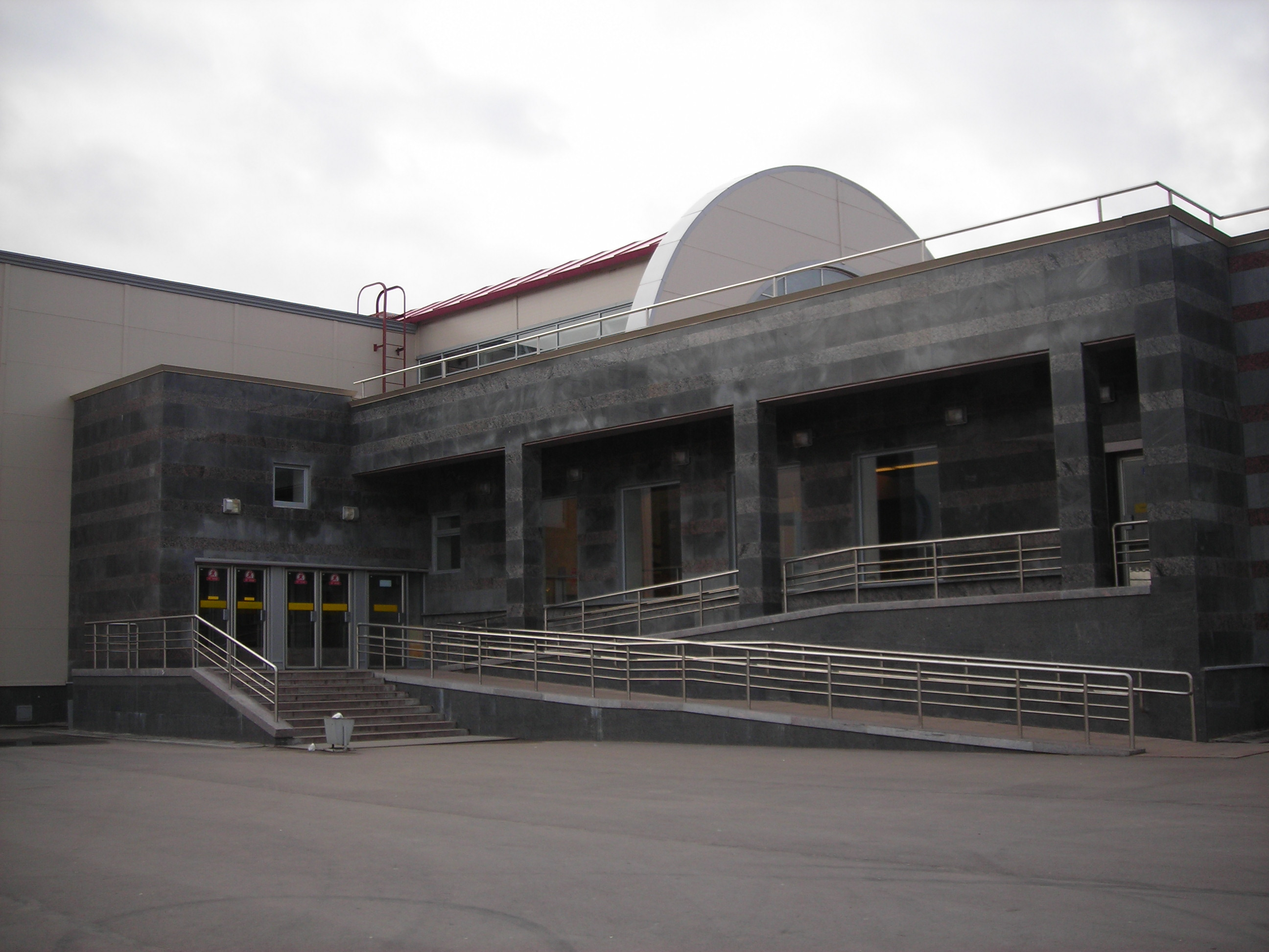 Pavilion of metrostation «Parnas», Spb